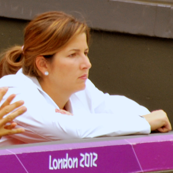 Watching Stanislas Wawrinka take on Andy Murray at the Olympic Games.